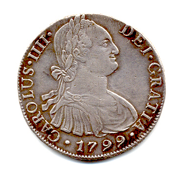 Scan of a 1799 Spanish Carlos III Ral (obverse)